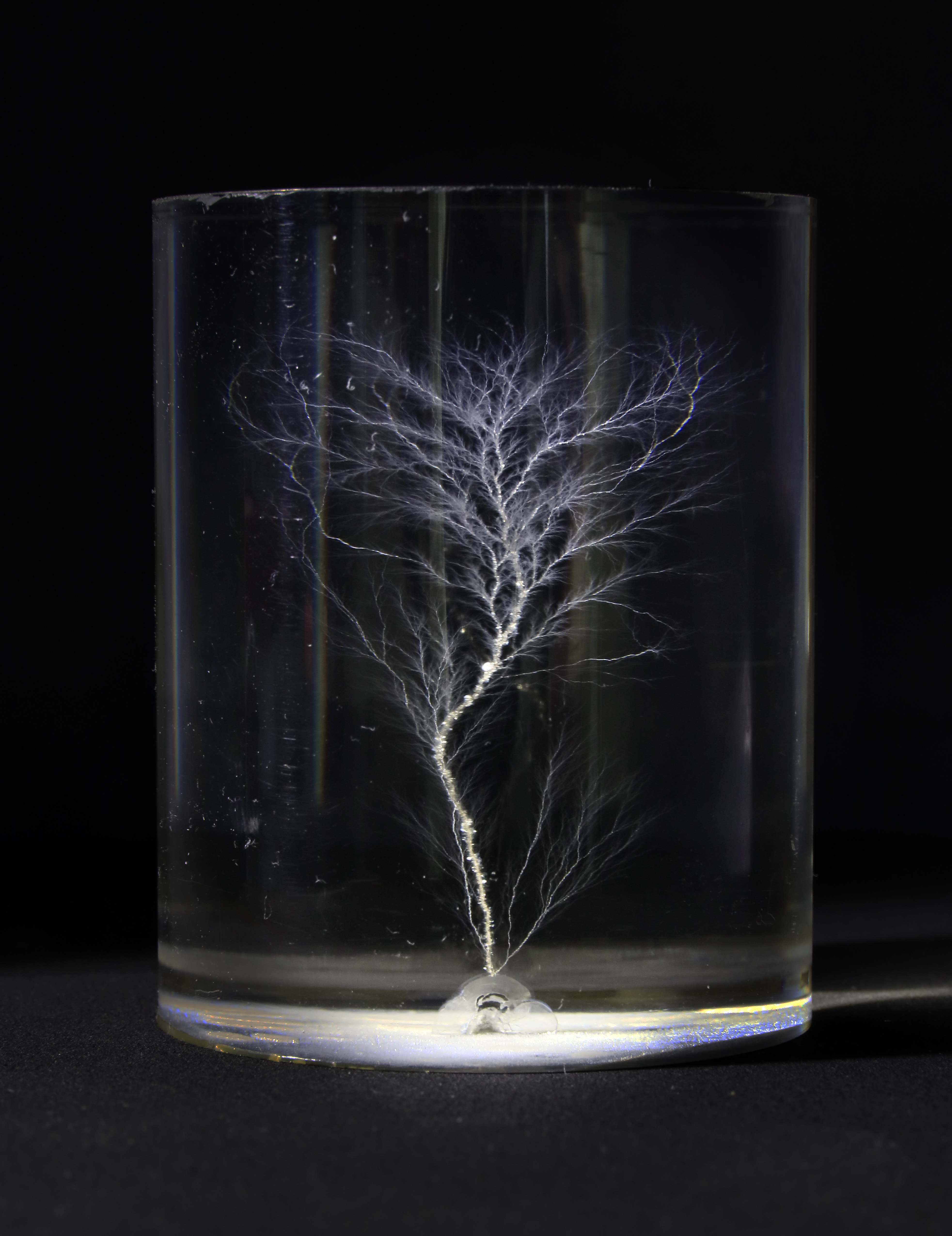 This Lichtenberg fractal tree form was produced by a linear accelerator. By placing an acrylic block in the electron beam, this insulating material is charged to several megavolts. Punching this block with a sharp pin (seen at the bottom of the block) causes an electrical discharge with a fractal tree form.